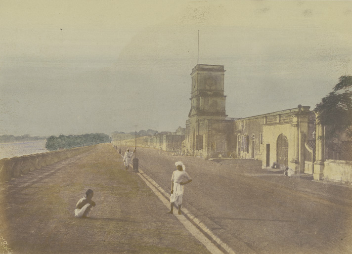 Chandernagore in the middle of the 19th century. View of the waterfront ("le Strand") and the old admiralty building facing the Hoogly River. Chandernagore, 25 km north of Calcutta, was one of the five settlements of French India. Hand-coloured salt print. Photographer: Frederick Fiebig, 1851.